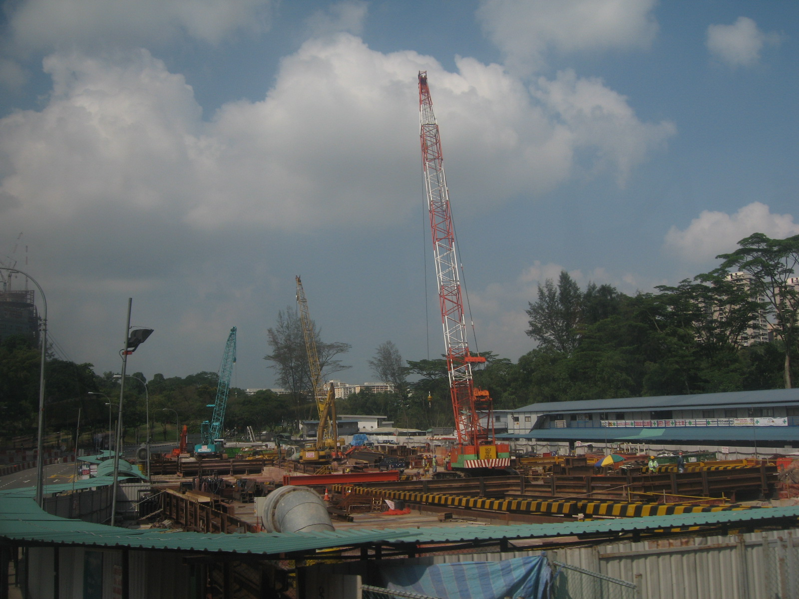 Buona Vista MRT Station — Circle Line section under construction.